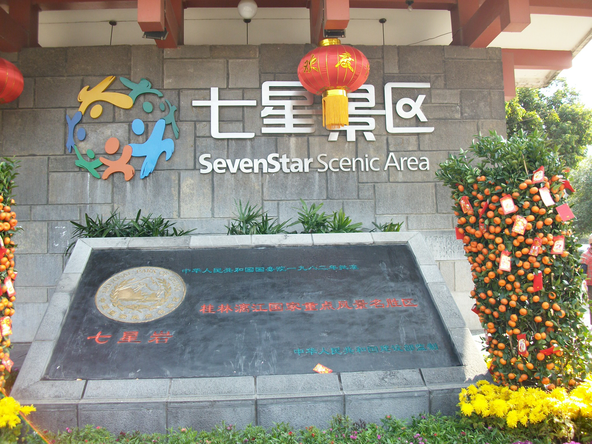 The gate of Qixing (Seven-star) Scenic Area.